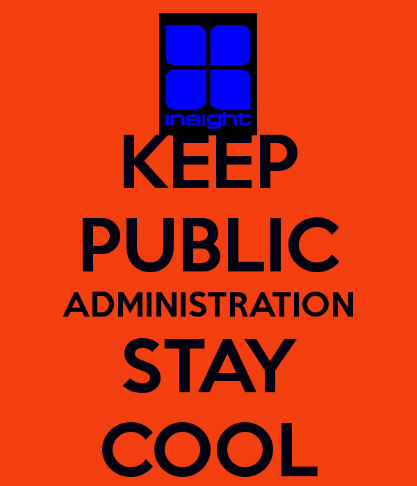 administration